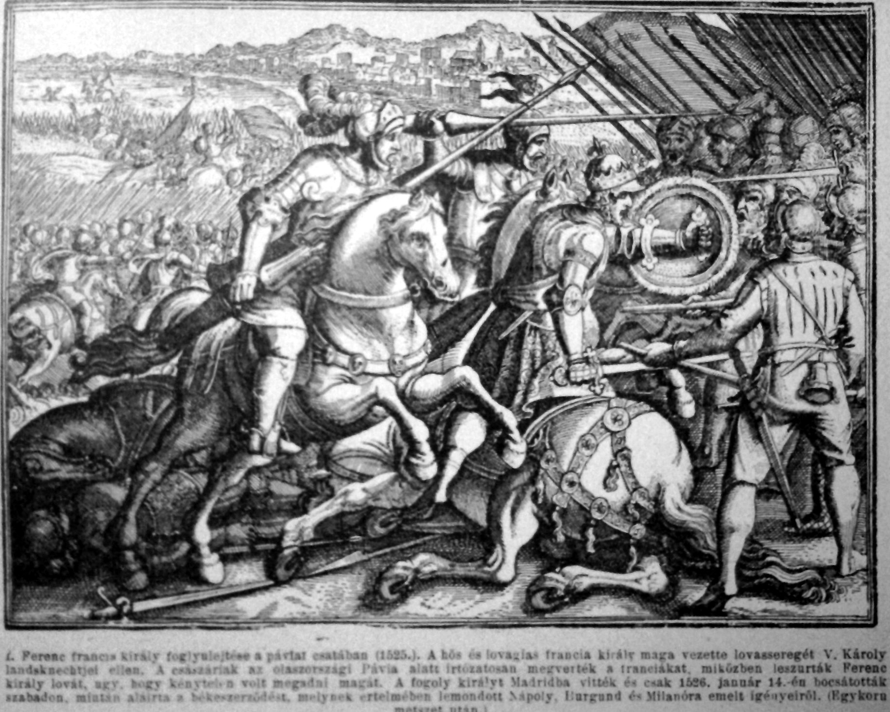 Battle of Pavia, 1525, Francis I of France